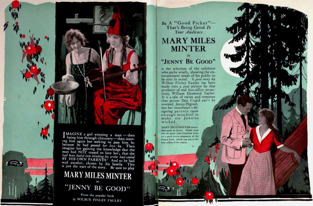 Ad for the American drama film Jenny Be Good (1920) with Mary Miles Minter, on pages 3806 and 3807 of the May 1, 1920 Motion Picture News.